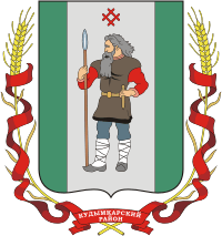 Coat of Arms of Kudymkarsky rayon, Perm krai, Russia, 2004.